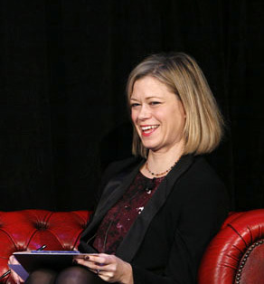 Photo By Kent Derek